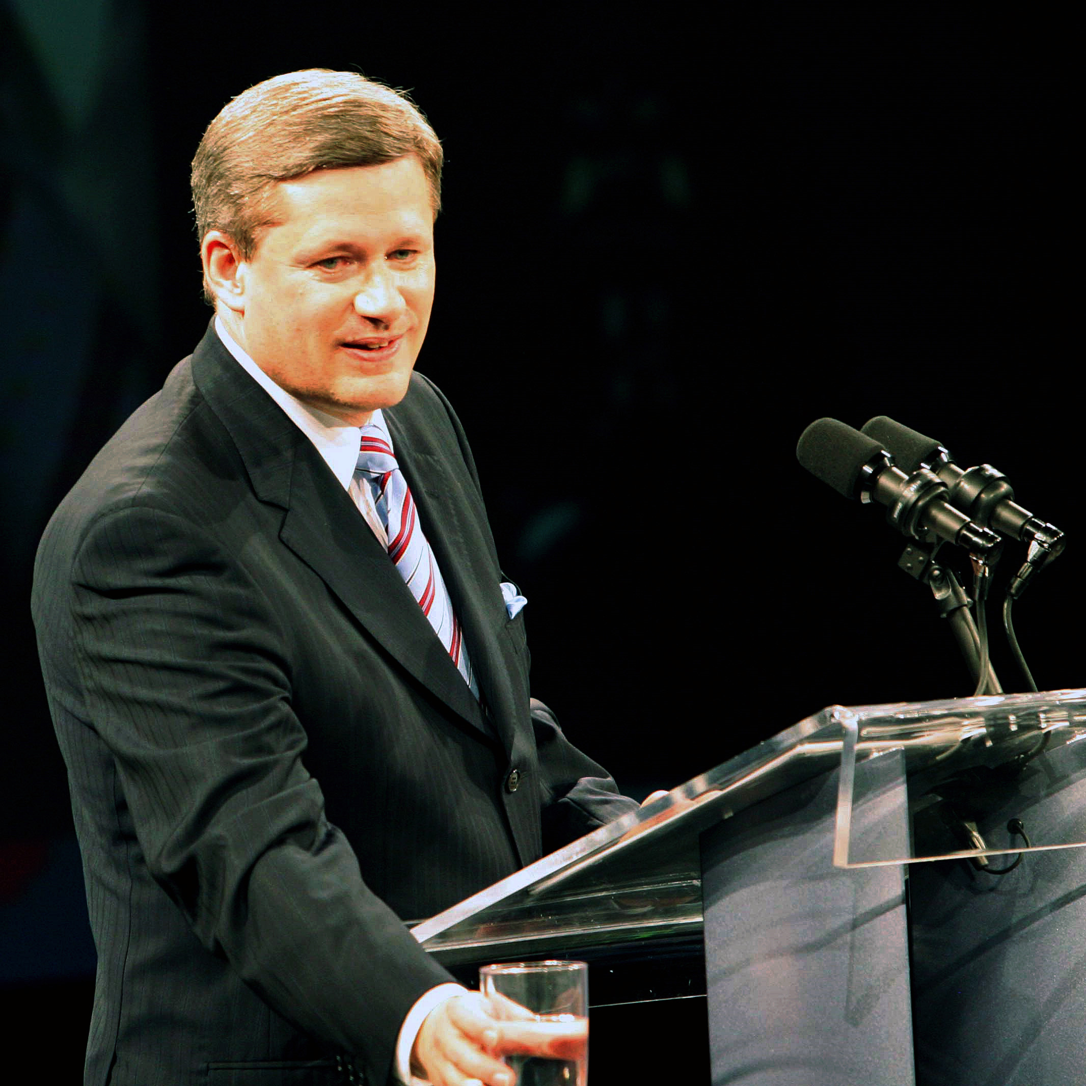 Original description by Ted Buracas: Stephen Harper at the Telus Convention Centre on January 23, 2006. He's just won a minority government, and is the Prime Minister elect. Description by the uploader: Stephen Harper gives his victory speech to party faithful in the Telus Convention Centre, Calgary, Alberta.